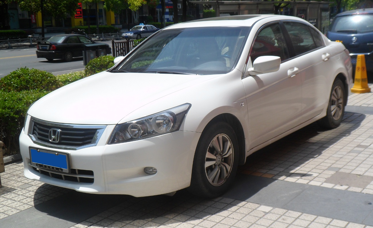 Honda Accord VIII photographed in Shanghai, China.